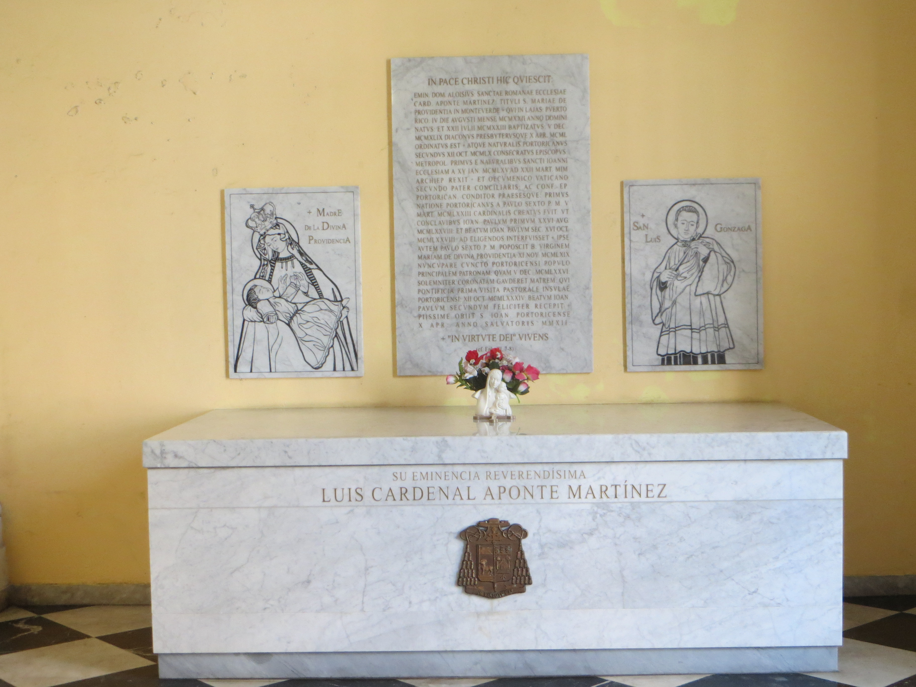 Catedral de San Juan Bautista de Puerto Rico